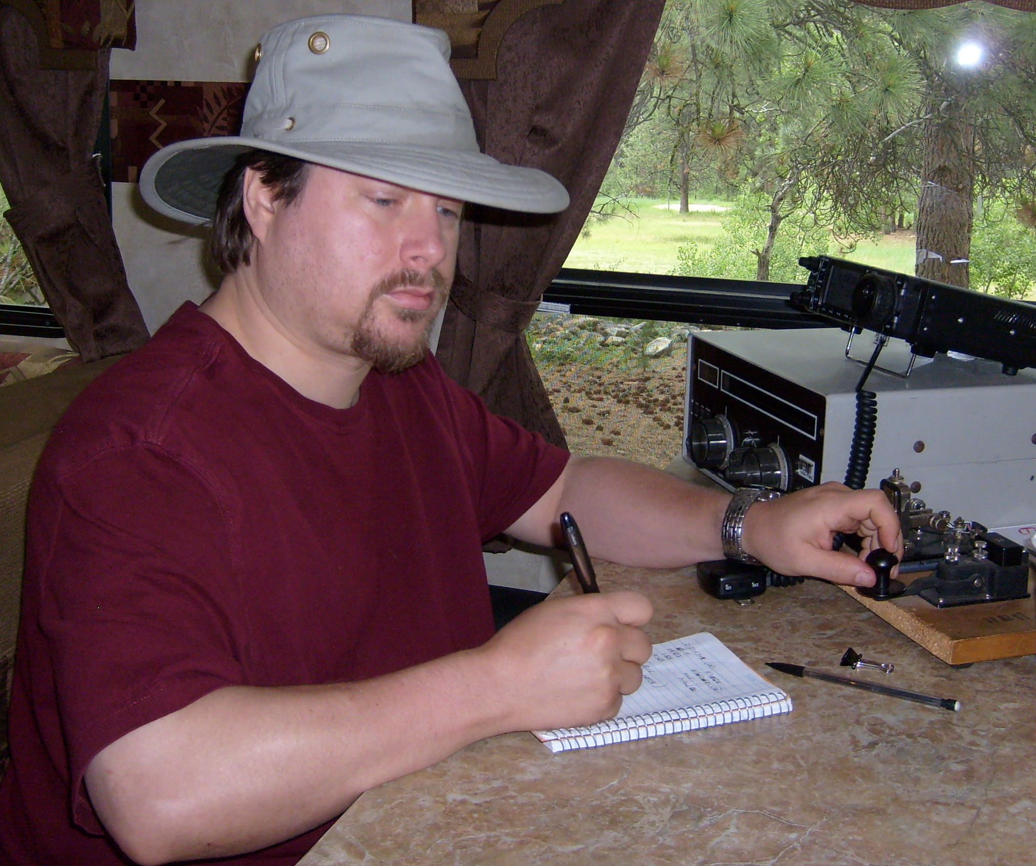 Amateur radio operator, NW7US (Tomas), operating a portable amateur radio station using CW with Morse code. He is using a flame-proof, U.S. Navy WWII Signaling Key.